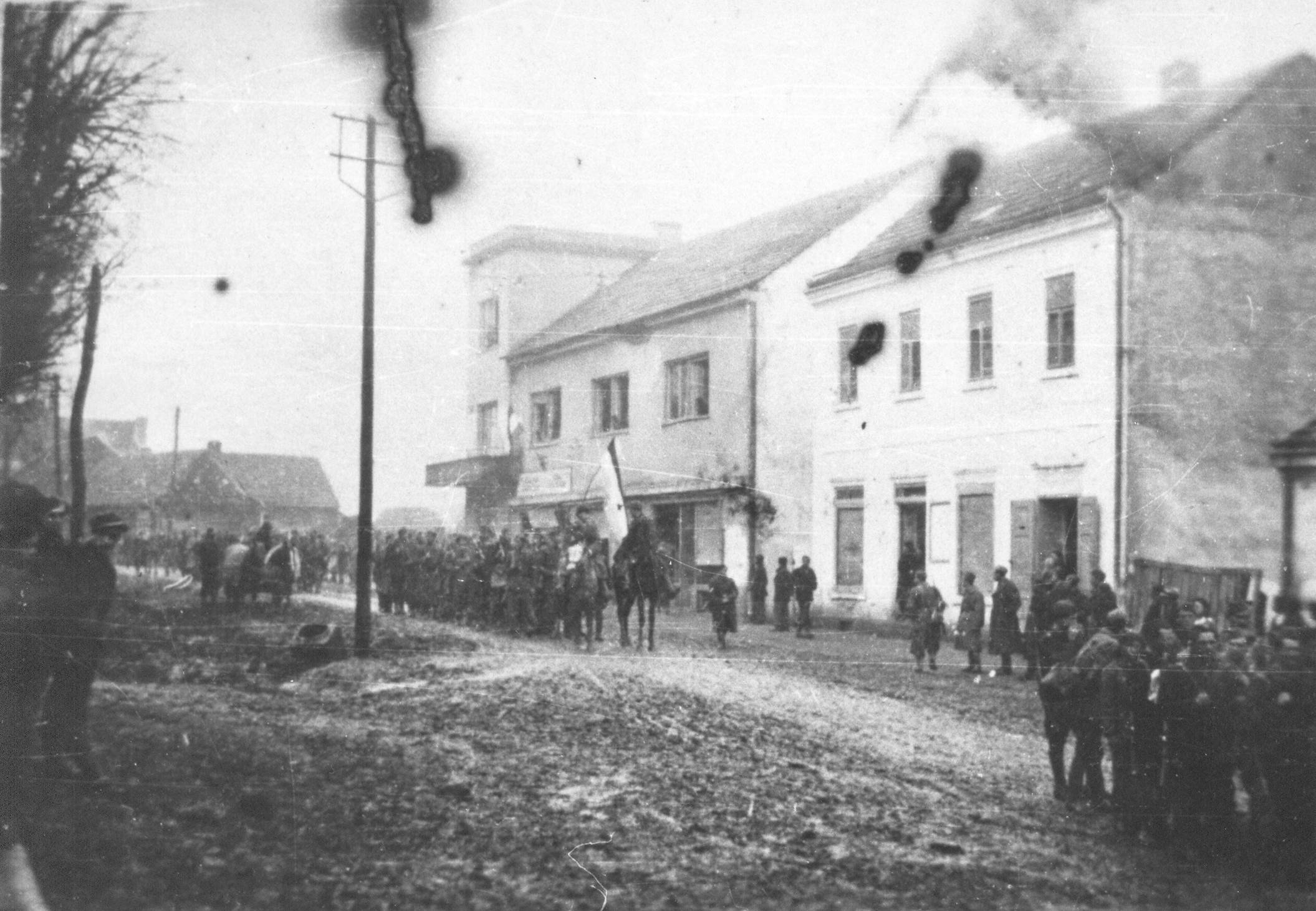 Partisans of the 2nd Moslavina Brigade in Čazma after liberation, 29 November 1943.